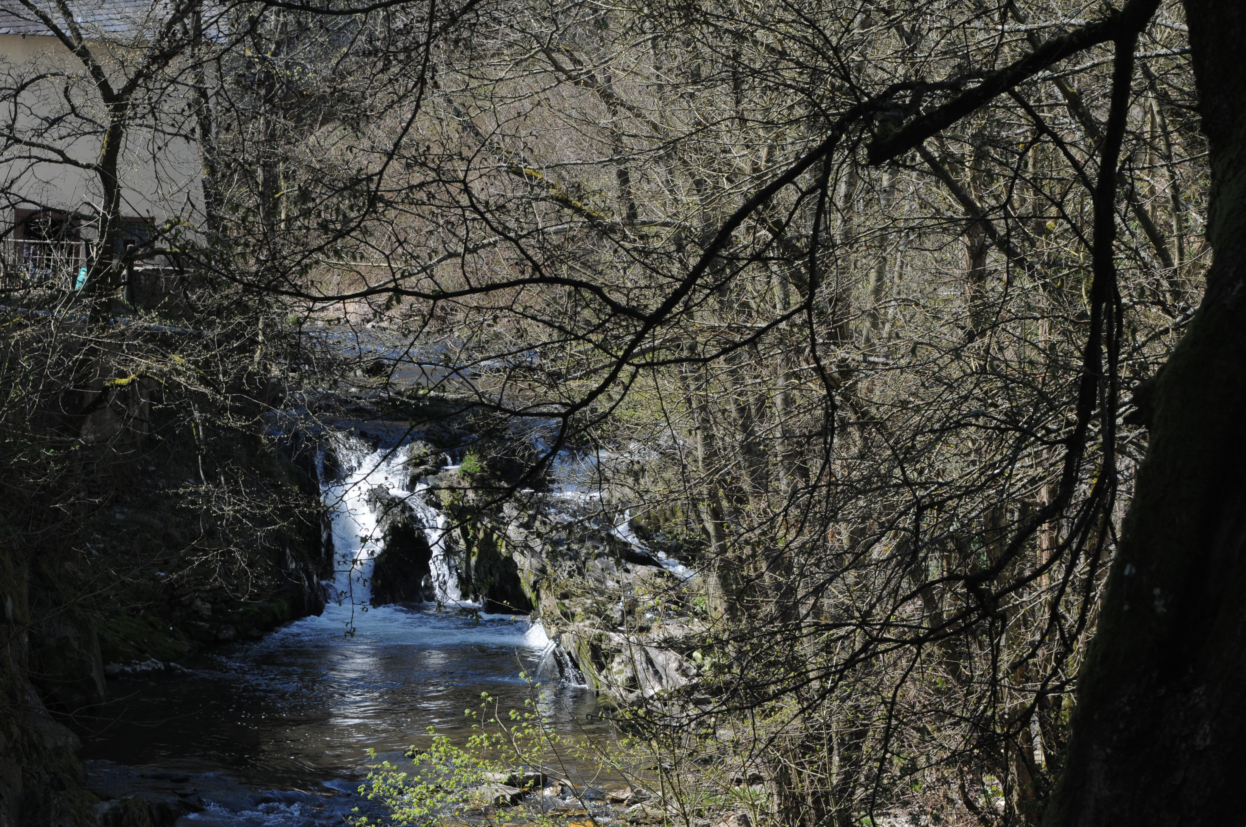 Ruwer waterfalls - Sommerau (Rhinelannd-Paltinate) Germany